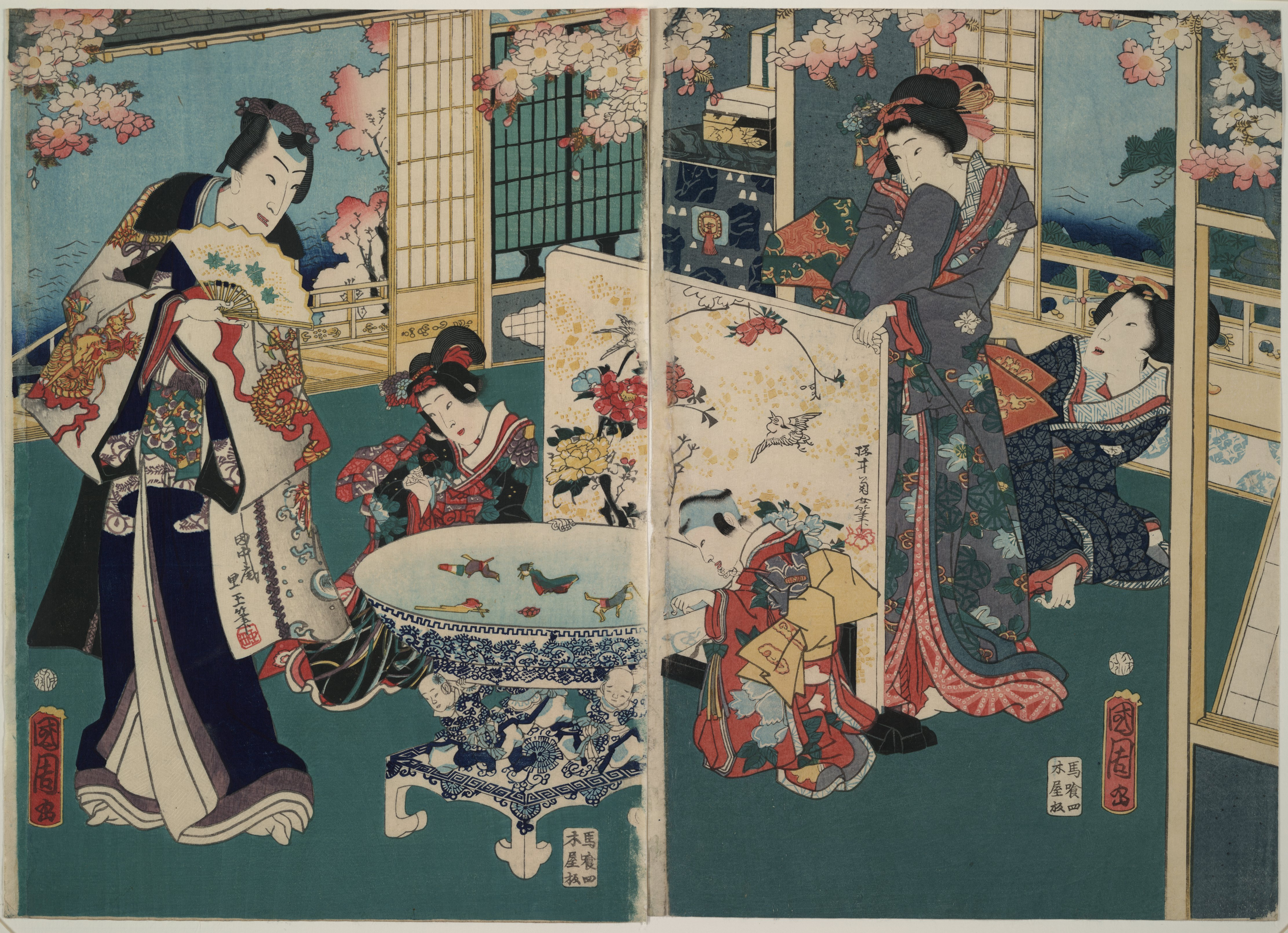 "Scene in a villa". 19th century Ukiyo-e woodcut. Diptych showing richly-dressed man, two children, and two women in a richly-appointed interior. Screen in image signed by Sakurai Kiku; man's garment signed by Inch-an Rigyoku. Ōban size prints. Title and other information based on entry for item in exhibition catalog. Exhibited: "The Floating world of Ukiyo-e: shadows, dreams and substances," organized by the Library of Congress, 2001.